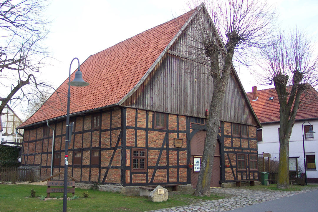 The Friedrich-Wilhelm-Weber-Museum and birth house in Alhausen (Bad Driburg), Germany